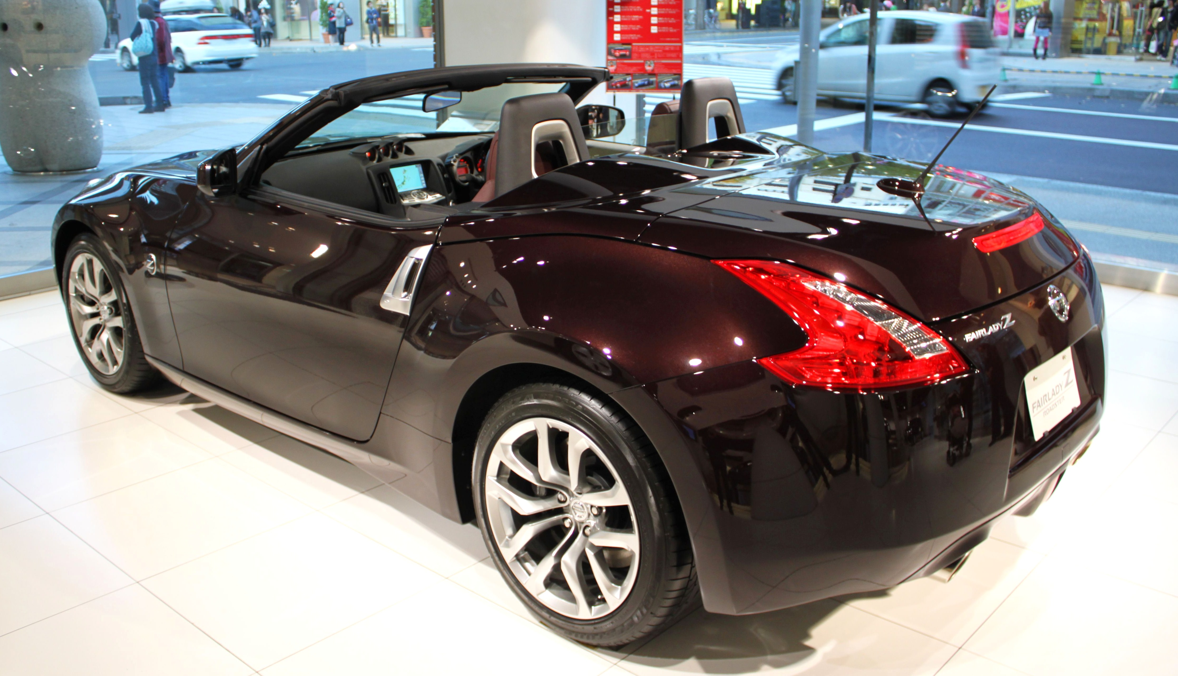 NISSAN FAIRLADY Z ROADSTER Z34